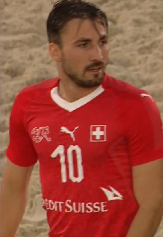 Swiss beach soccer player Noel Ott playing against Russia at the 2019 World Cup qualifiers.